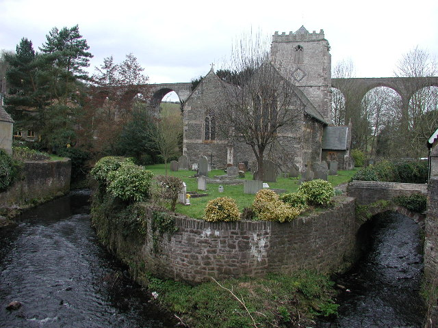 Pensford (Somerset) St Thomas a Becket Church. The River Chew, church and the North Somerset Railway viaduct